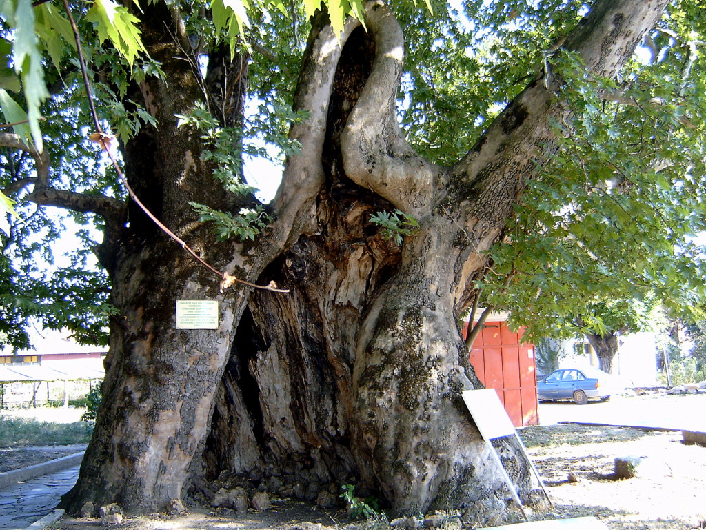 Oriental plane tree over 600 years old